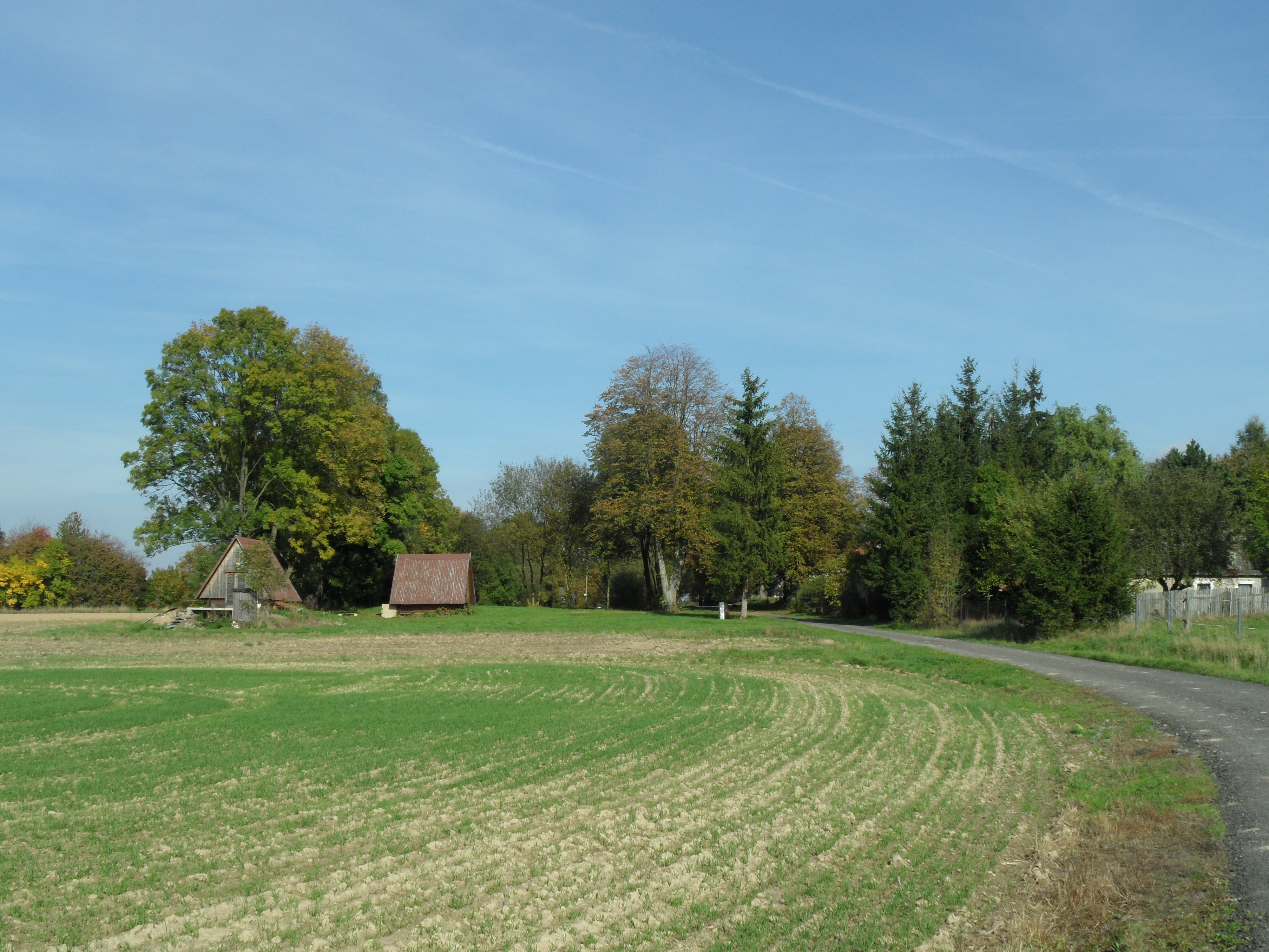 Františkov (Úžice) A. Arrival to Village from Chrastná, Kutná Hora District, the Czech Republic.